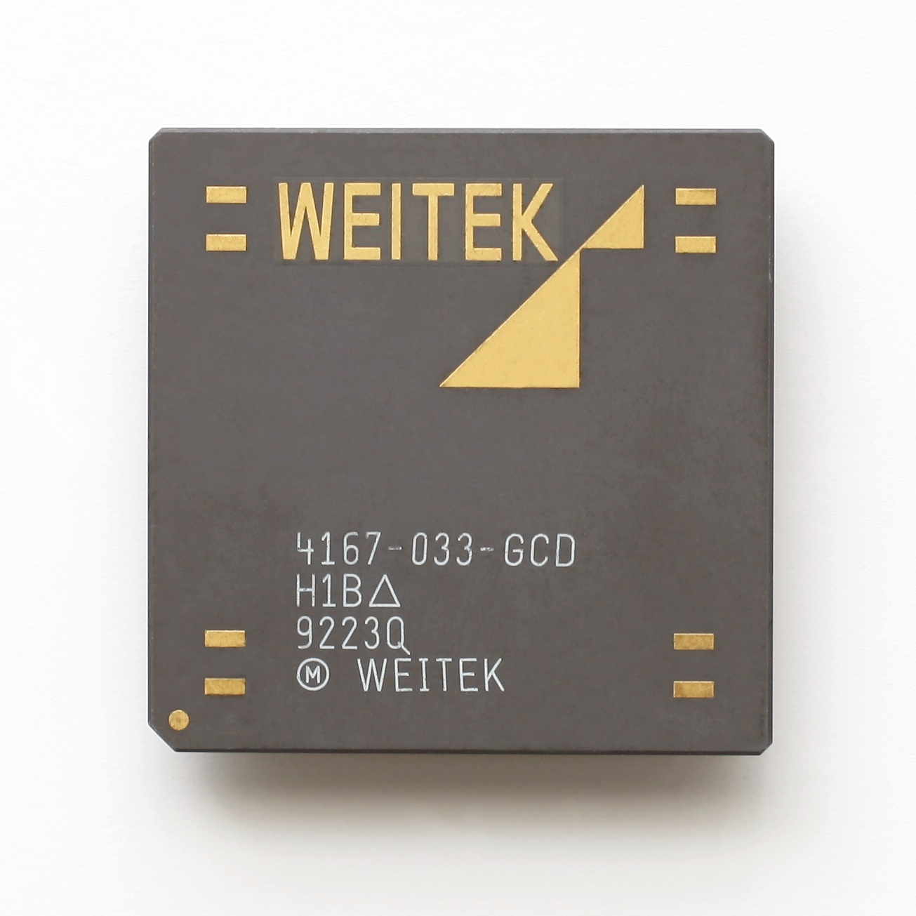 FPU Weitek 4167 for i486(SX)-Systems with Weitek 4167 socket